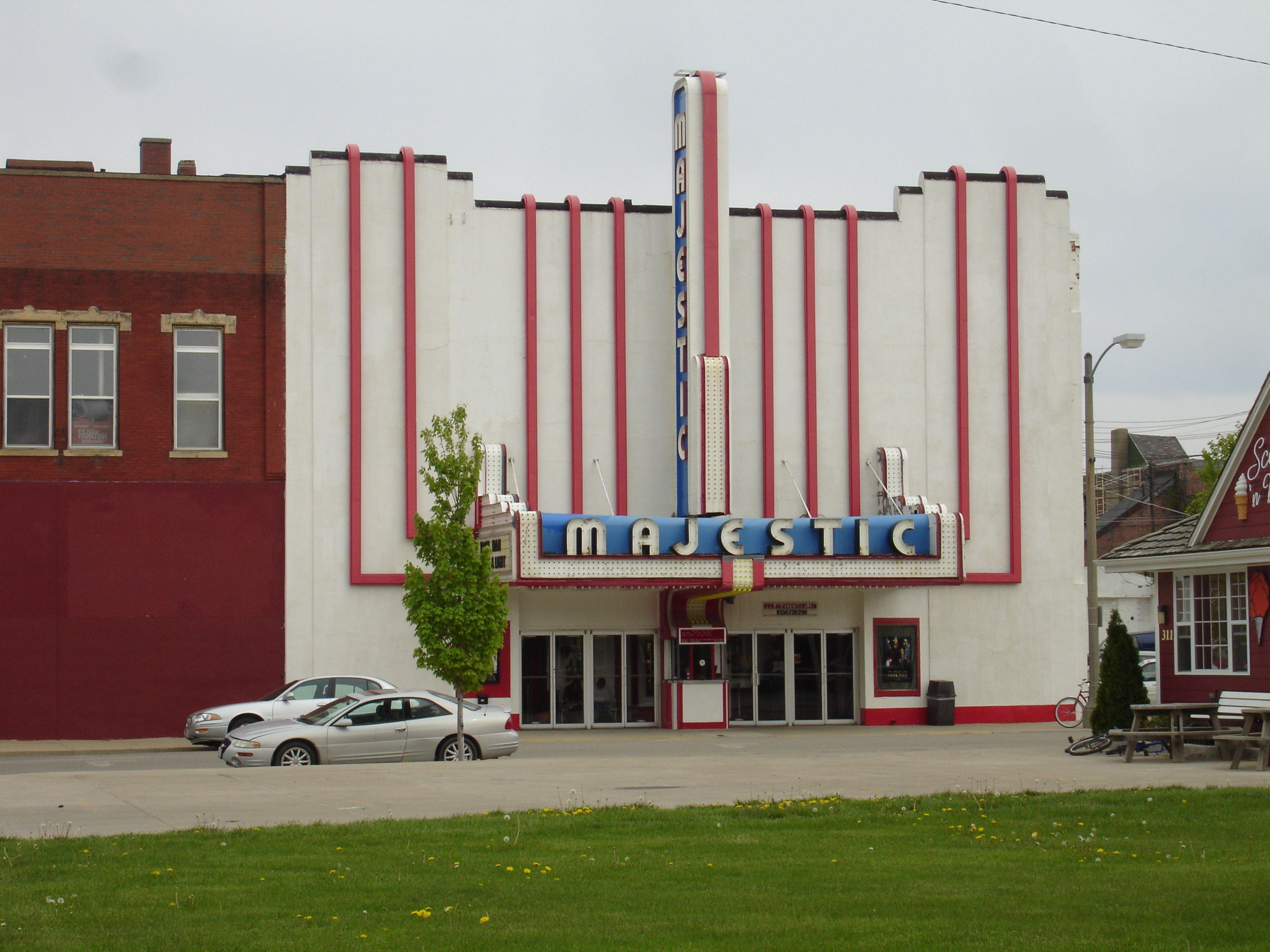 Majestic Theater in downtown Streator, Illinois, USA.